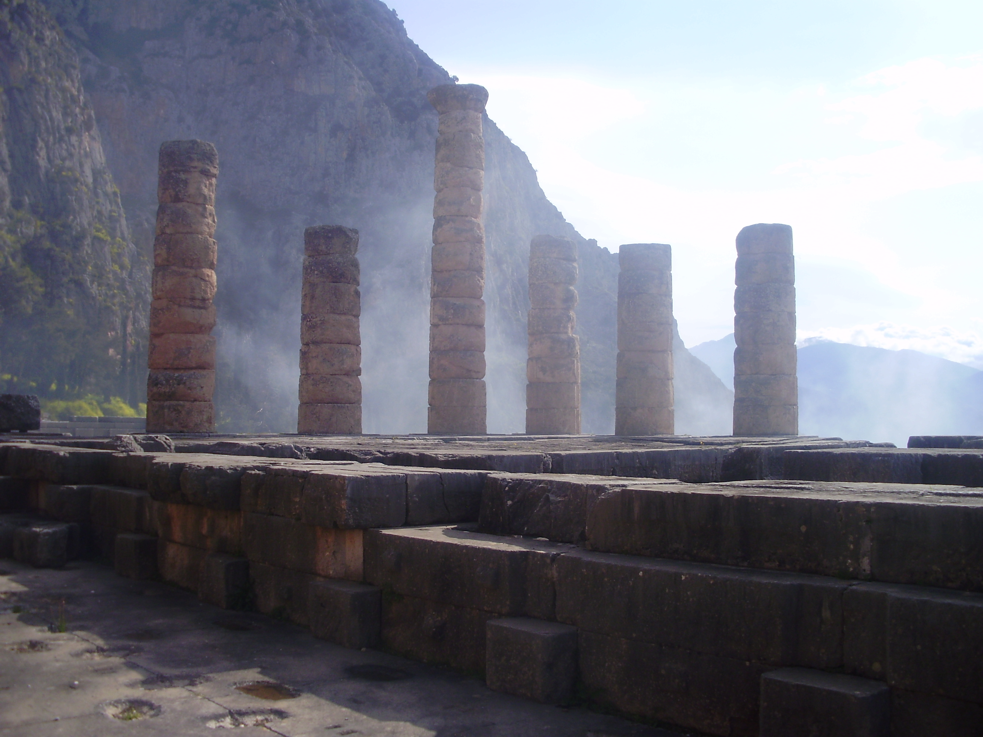 Detail from Archaeological Site of Delphi, Greece